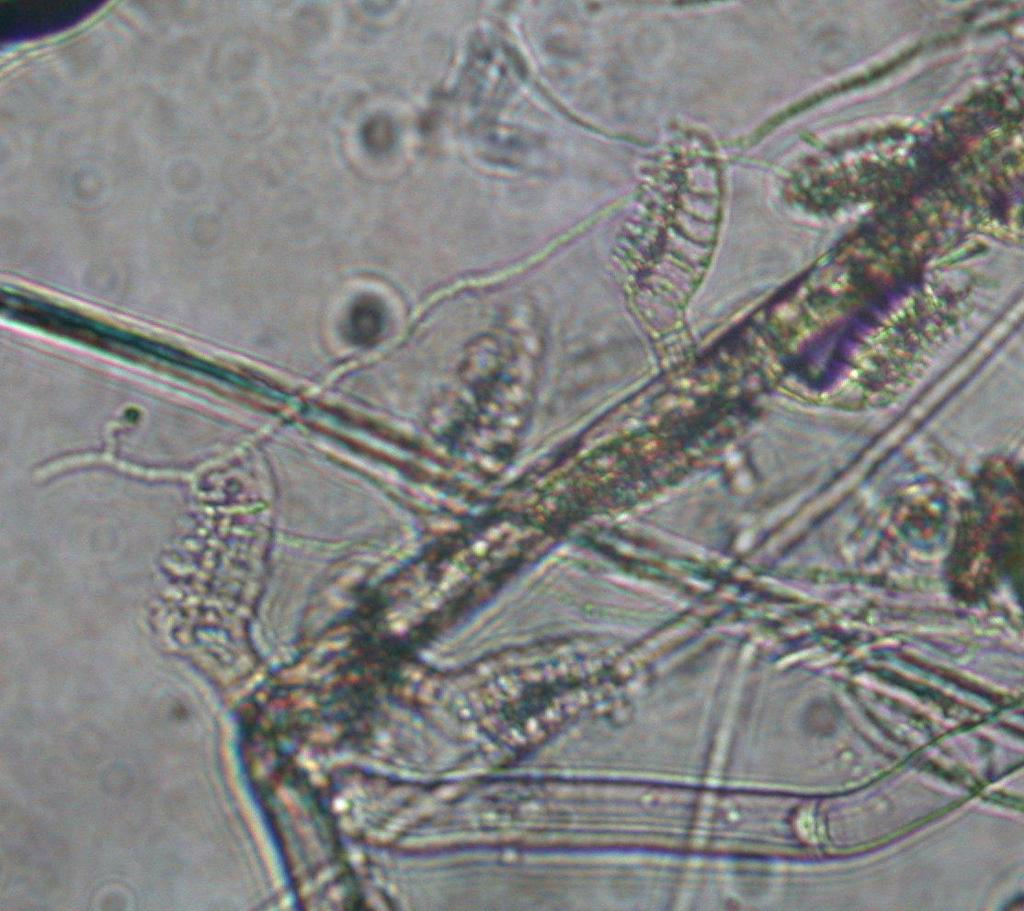 Coemansia sp. perhaps C. electa. 2004.11.Susami T, Wakayama Pref.Japan